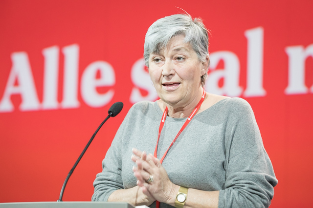 Gerd Kristiansen during the debate at Norway Labour party's bi-yearly congress in 2017(Arbeiderpartiets landsmøte).